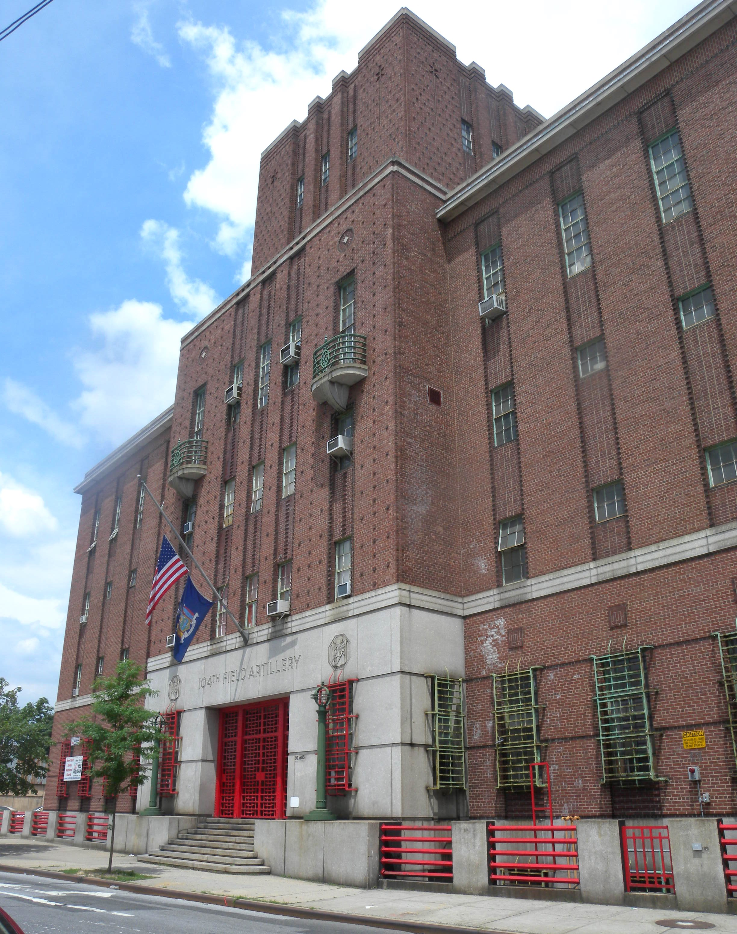 Looking northeast across 168th St at Artillery armory on a partly cloudy midday.